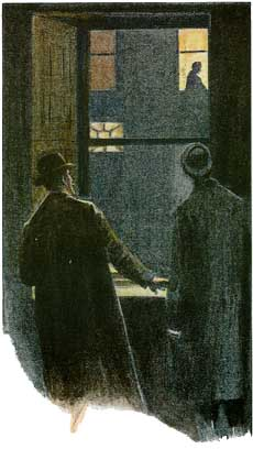 Arthur Conan Doyle, "The Adventure of the Empty House" (1903), Illustration by Sidney Paget, in The Strand Magazine. Orginal caption:"I crept forward and looked across at the familiar window."